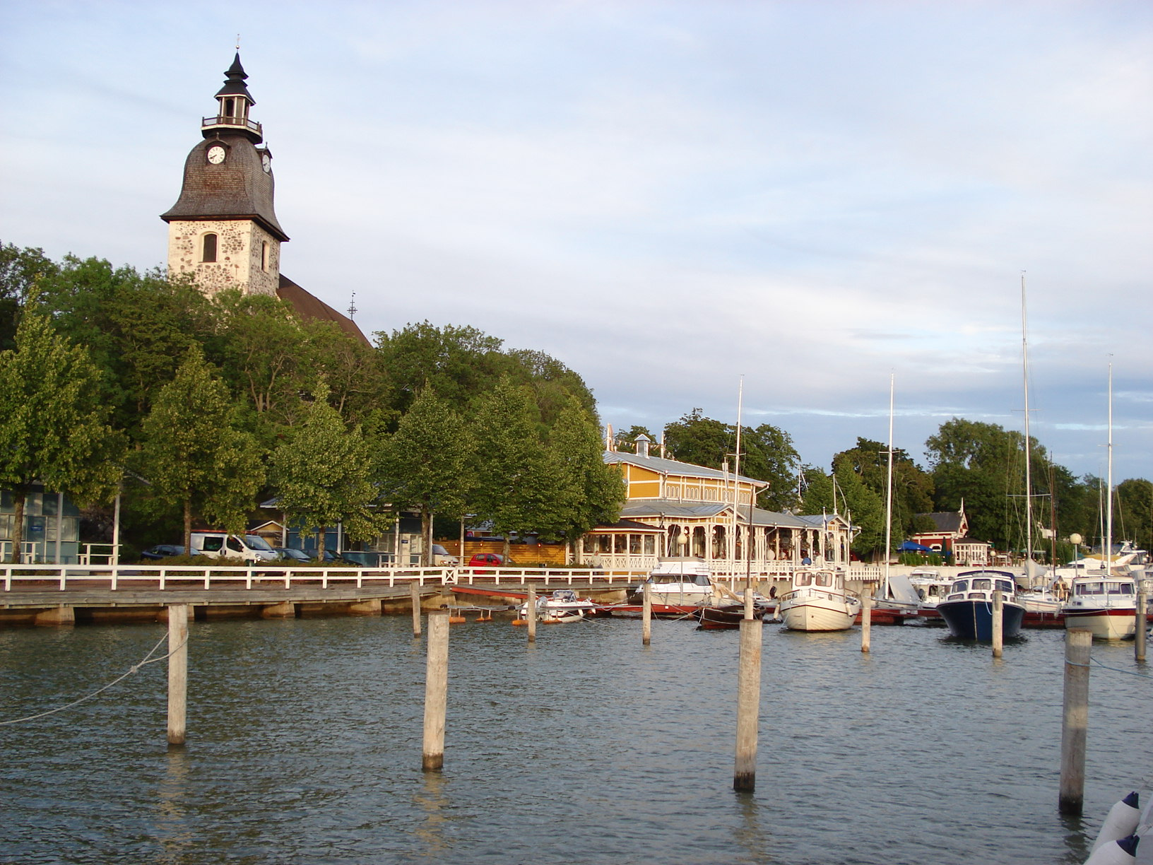 Church of Naantali in Naantali, Finland.